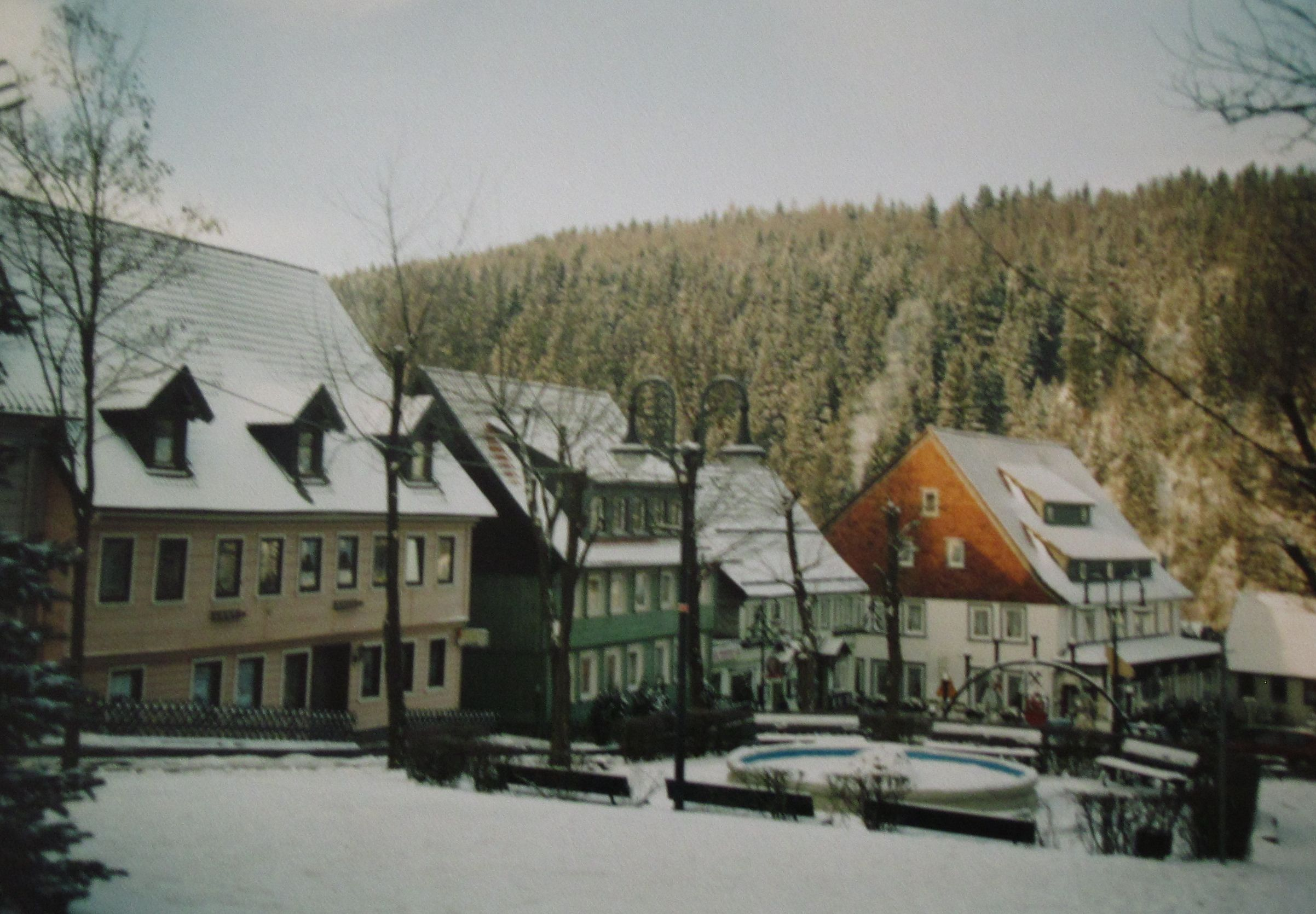 Market Place with former Town Hall (built in 1570), Lautenthal , Harz Mountains, Lower Saxony, Germany